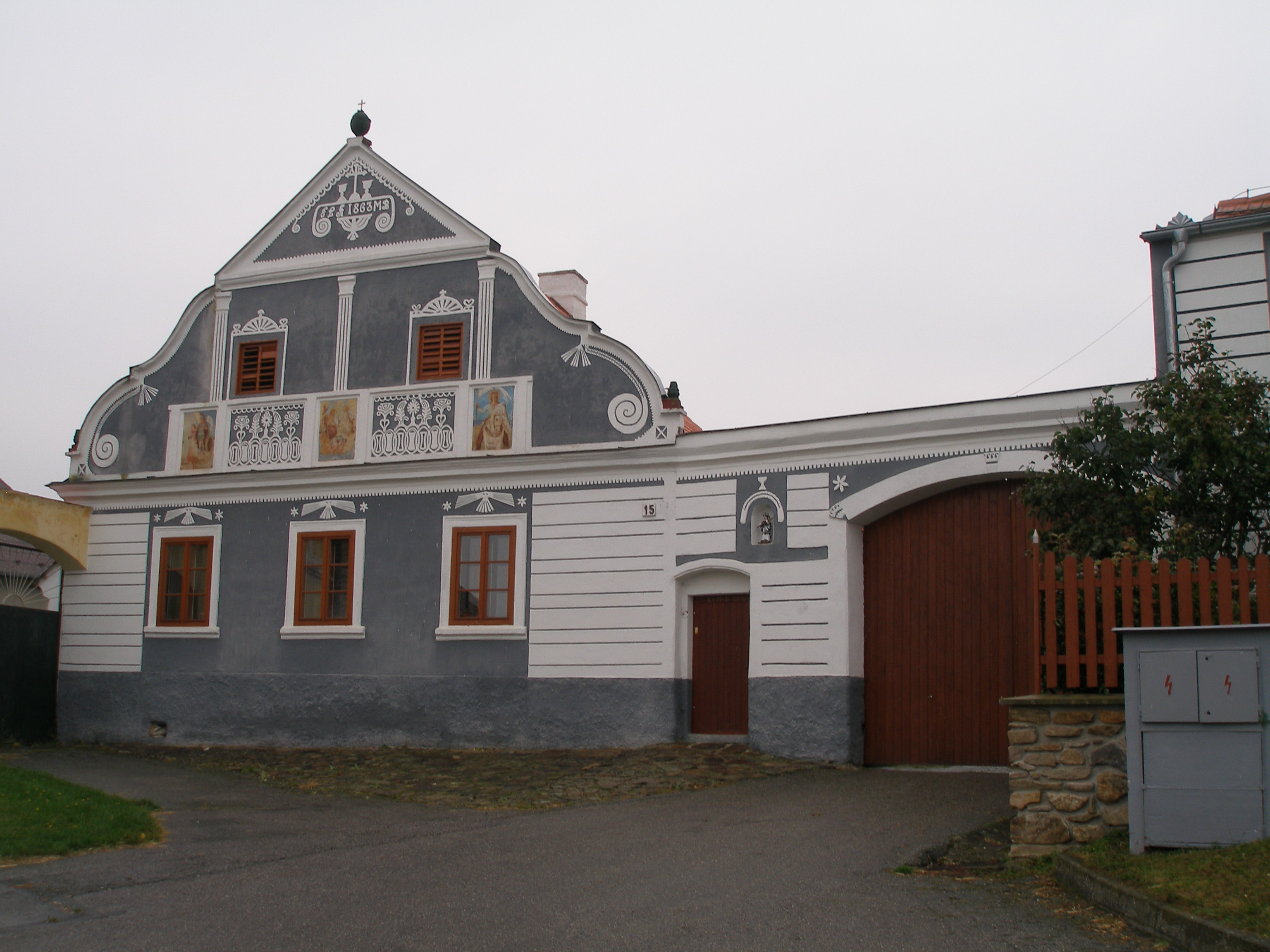 Radošovice (České Budějovice District) - the house No.15